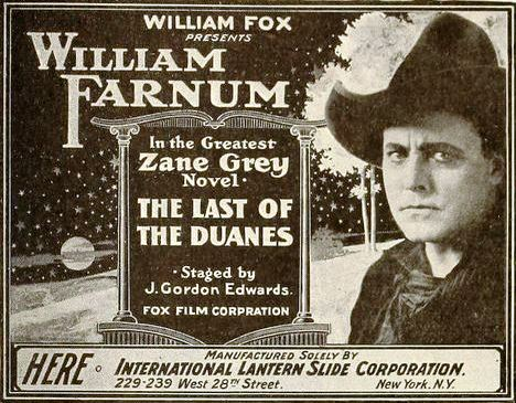 Ad on a slide for the American western film The Last of the Duanes (1919) with William Farnum, on page 1297 of the August 9, 1919 Motion Picture News.